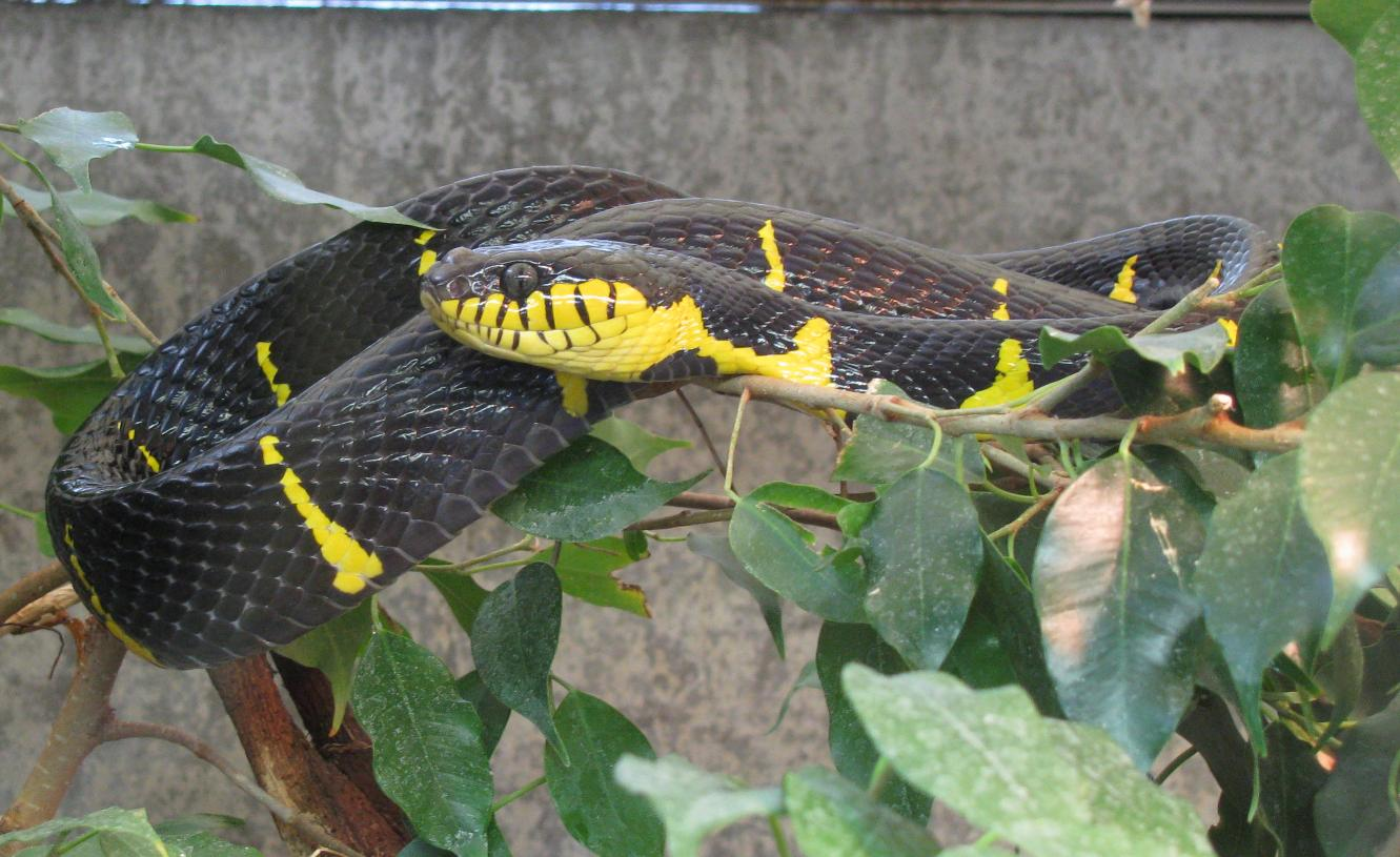 Boiga dendrophila